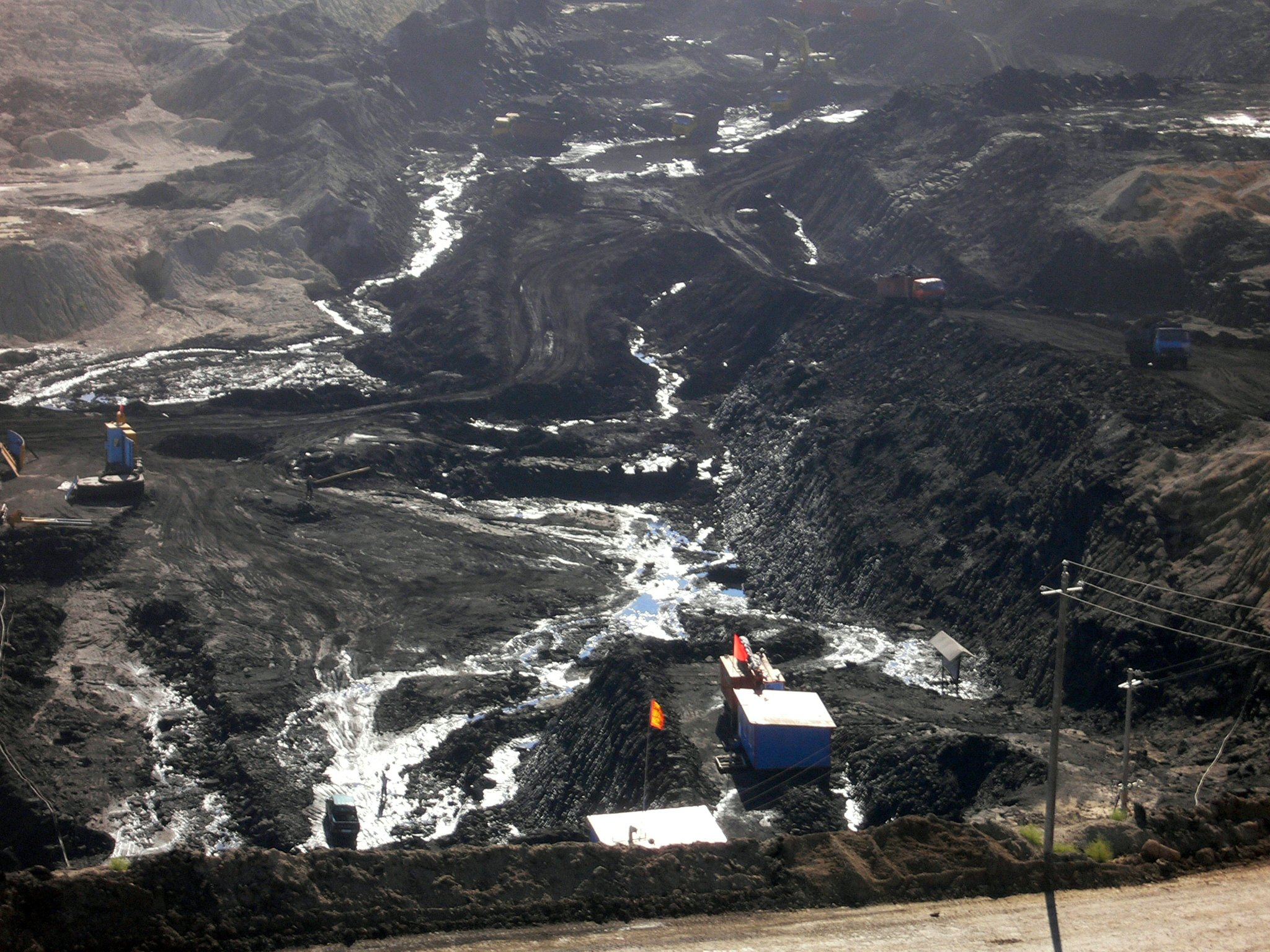 A coal mine near Hailar. This photo also appears in this YouTube video